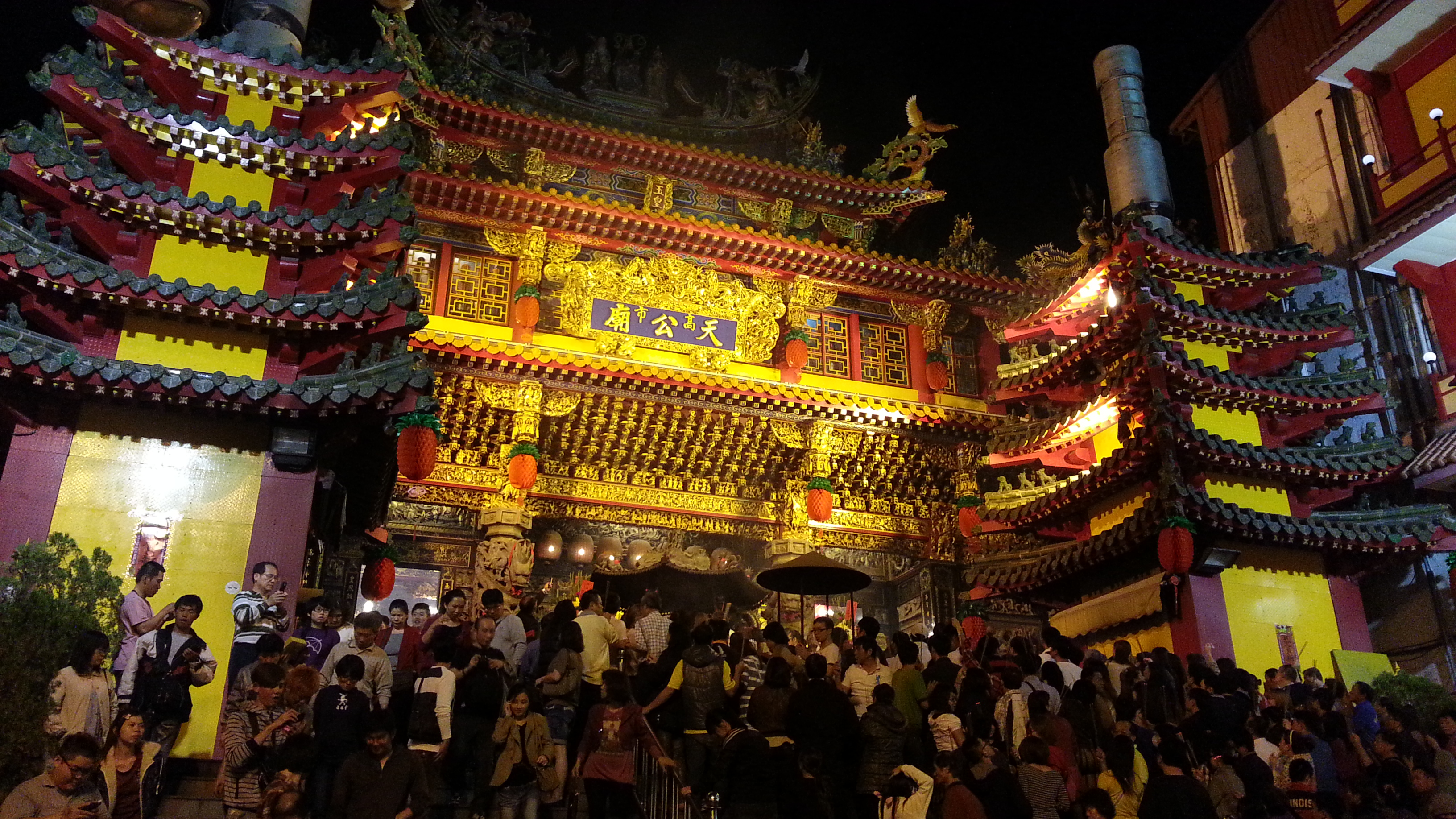 The Jade Emperor Temple in the midnight of Jade Emperor's birthday (The ninth day of the first lunar month)